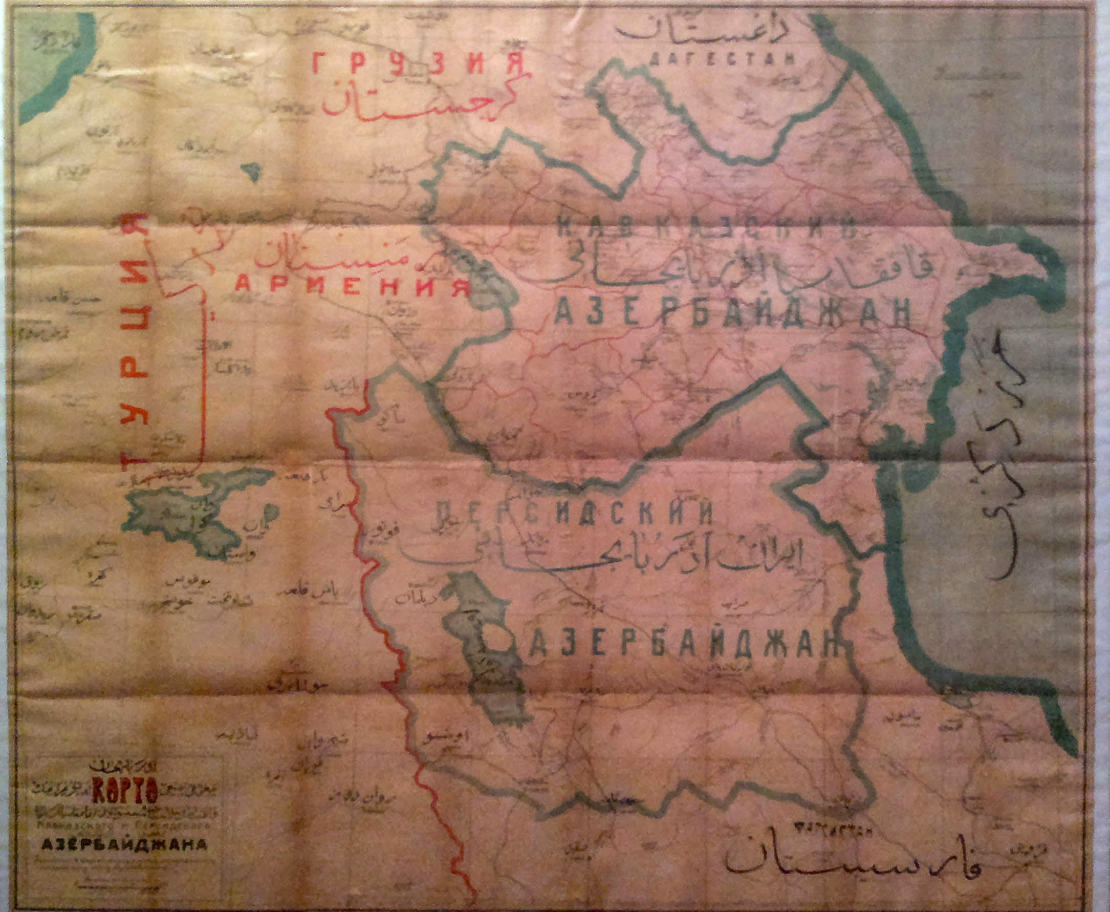 Map of Azerbaijan Republic and Southern Azerbaijan. Made during ADR period (1918-1920). Museum of History of Azerbaijan, Baku.